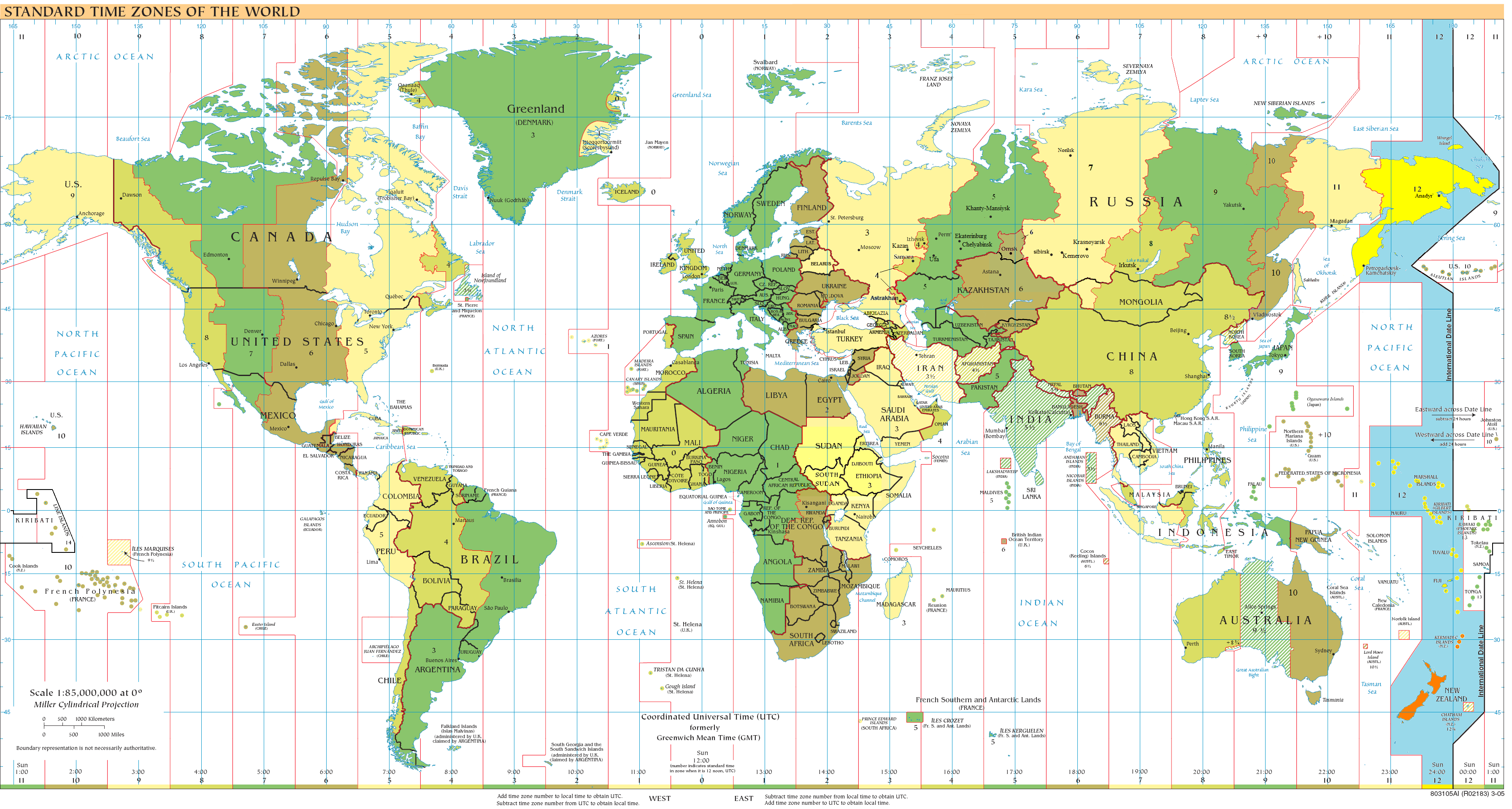 UTC+12